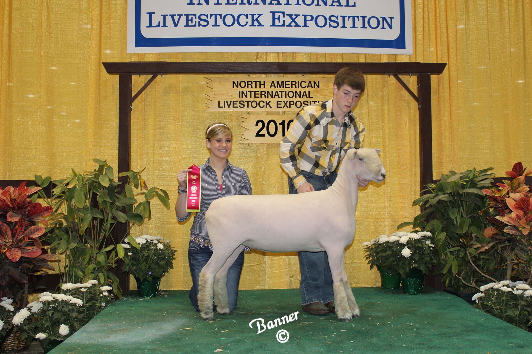 This is an American Standard Southdown.